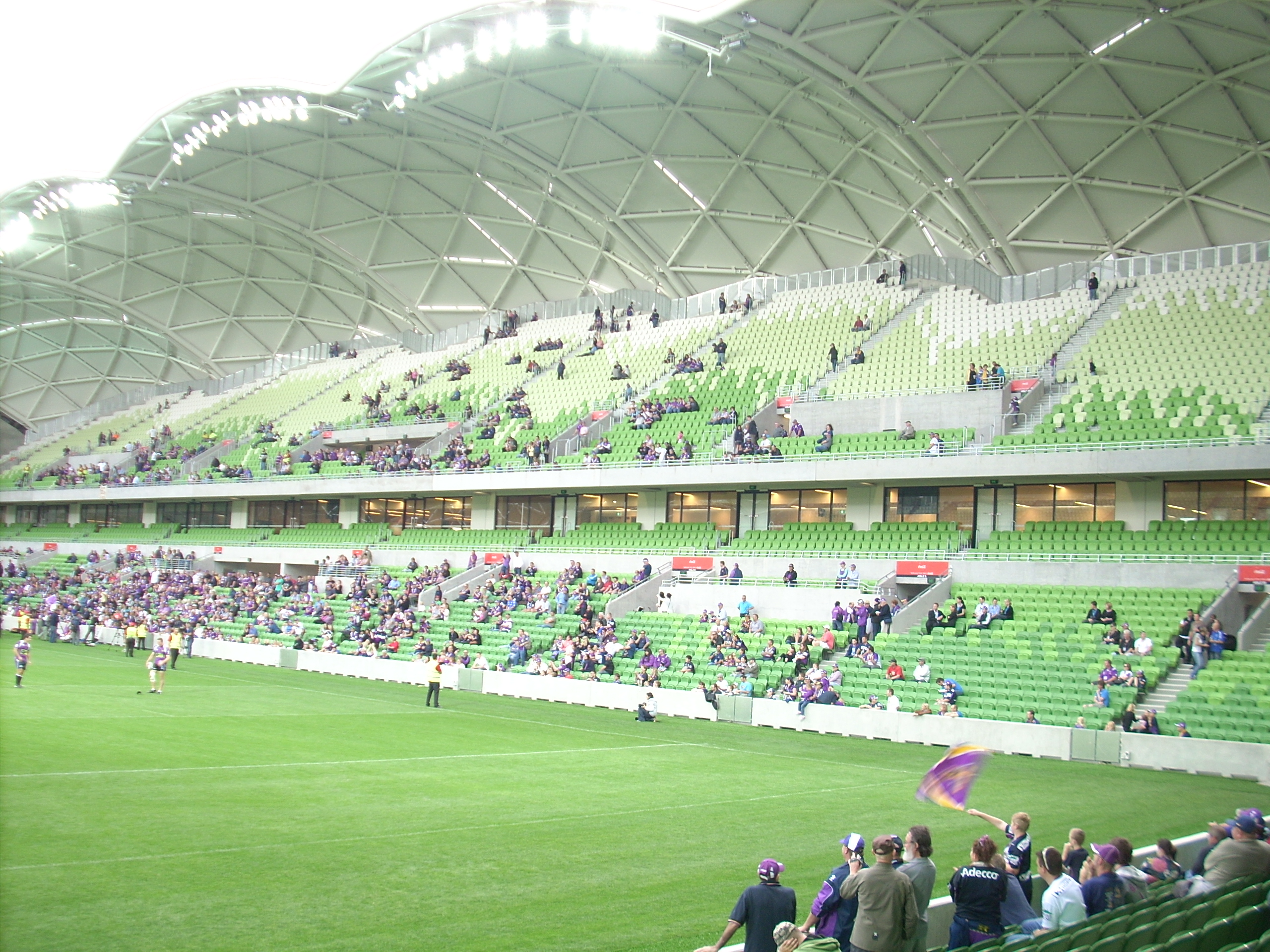 The Eastern Stand of the Melbourne Rectangular Stadium (AAMI Park) looking from the souther or River End